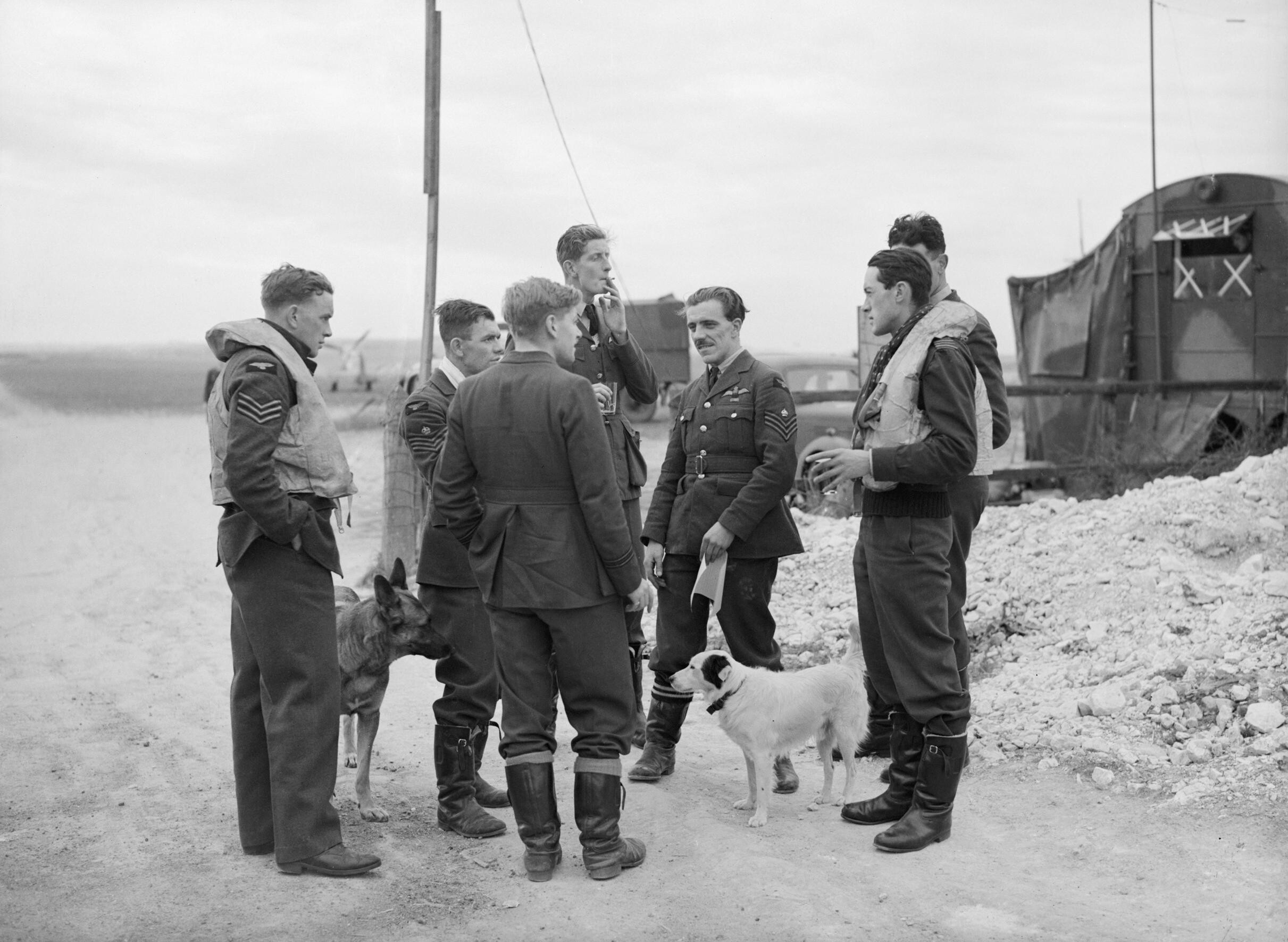 Spitfire pilots of No. 19 Squadron RAF gather at Manor Farm, Fowlmere, near Duxford in Cambridgeshire, September 1940. A group of pilots of No. 19 Squadron RAF discuss a recent sortie by Manor Farm at Fowlmere, Cambridgeshire. Standing from left to right are: Sergeant B J Jennings Flight-Sergeant G C 'Grumpy' Unwin unknown Flying Officer J C Dundas (of No. 616 Squadron RAF) Flight Sergeant H Steere Squadron-Leader B J E 'Sandy' Lane, the Squadron's Commanding Officer Flight-Sergeant Unwin's pet German Shepherd dog 'Flash' can be seen to the left.